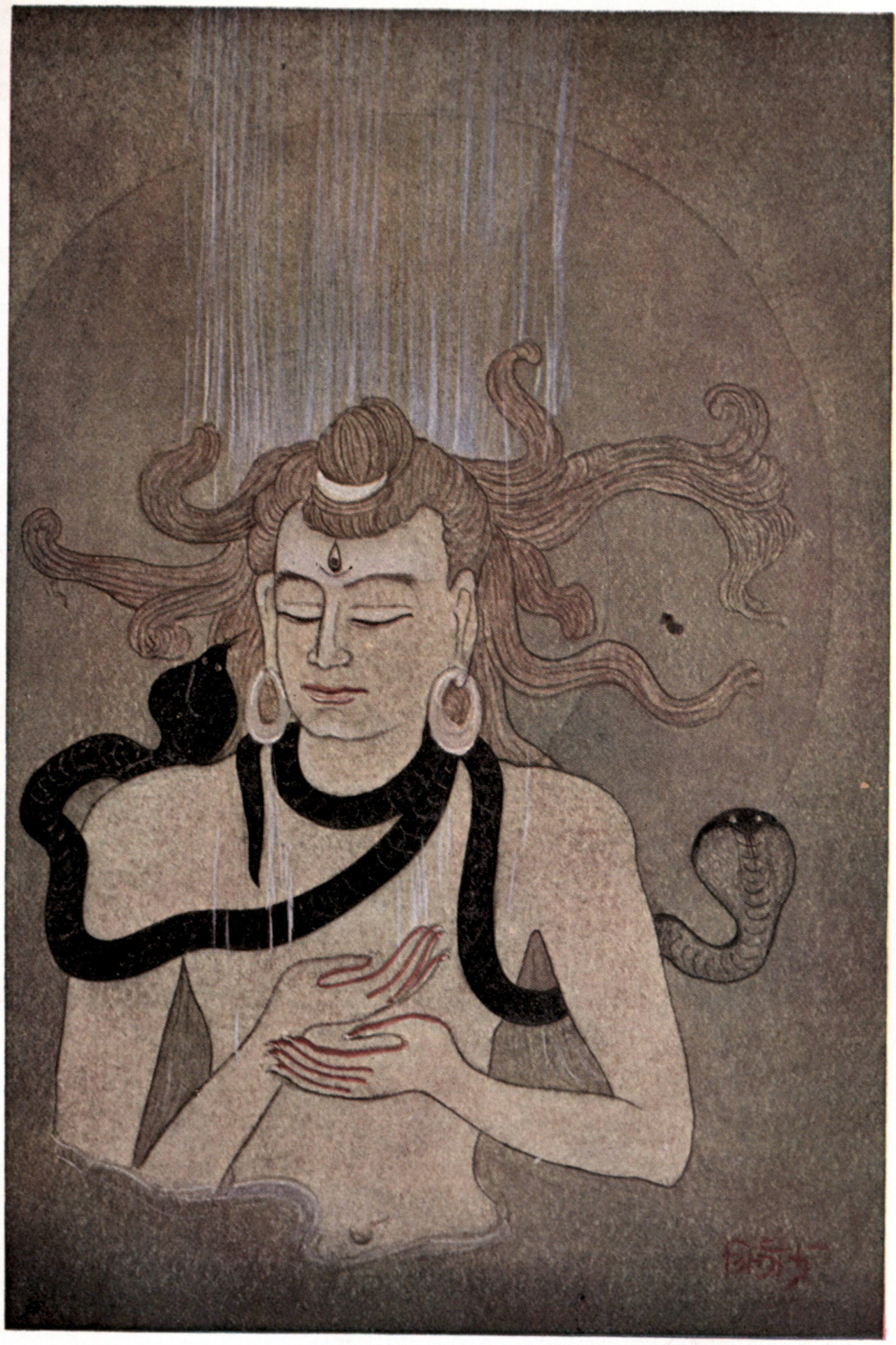 Myths of the Hindus & Buddhists (1914) Author: Nivedita, Sister, 1867-1911; Coomaraswamy, Ananda Kentish, 1877-1947 Subject: Mythology, Hindu; Mythology, Indic; Buddha and Buddhism Publisher: London Harrap Possible copyright status: NOT_IN_COPYRIGHT Language: English Call number: AAV-0085 Digitizing sponsor: MSN Book contributor: Robarts - University of Toronto Collection: robarts; toronto Full catalog record: MARCXML [Open Library icon]This book has an editable web page on Open Library. Be the first to write a review Downloaded 855 times Reviews Selected metadata Identifier: mythsofthehindus00niveuoft Copyright-evidence-operator: University of Toronto scanning center Copyright-region: US Copyright-evidence: Evidence reported by University of Toronto scanning center for item mythsofthehindus00niveuoft on May 12, 2006; no visible notice of copyright and date found; stated date is 1914; not published by the US government; Have not checked for notice of renewal in the Copyright renewal records. Copyright-evidence-date: 2006-05-12 20:39:44 Scanningcenter: UofT Operator: scanner-joanna-woodcock Mediatype: texts Scanner: uoft3 Scandate: 20060517130853 Imagecount: 518 Sponsordate: 20060531 Filesxml: Thu Mar 18 6:17:31 UTC 2010 Ppi: 500 Identifier-access: Identifier-ark: ark:/13960/t50g4p70x